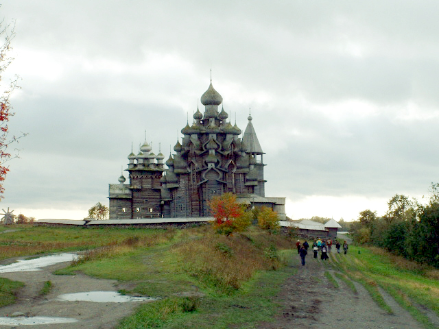 The Churches at the island Kizhi in Karelia, Russia. From the left: little chapel, winter church, summer church, tower of the bell